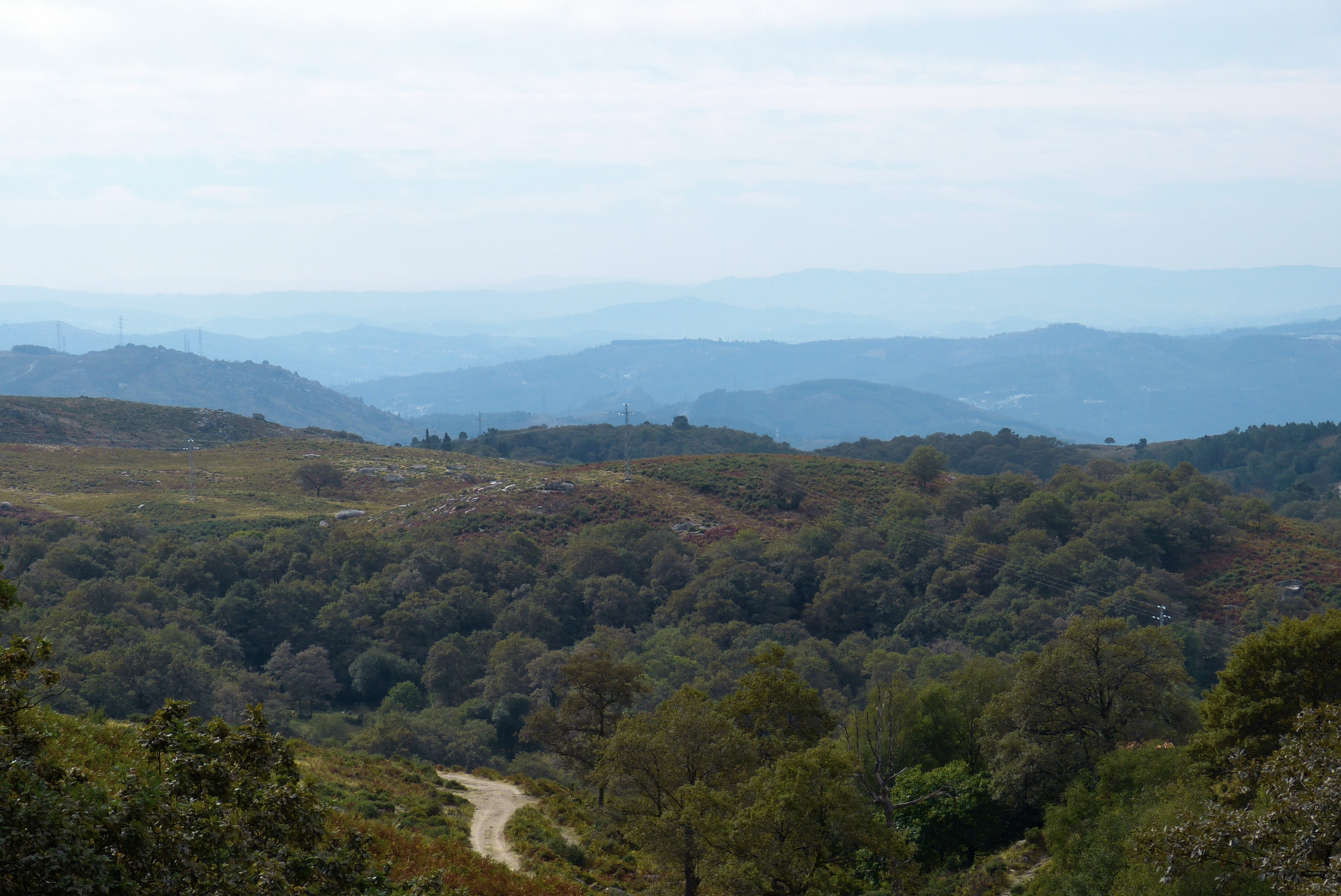 View from the hiking track between Seara and Covide, Parque Nacional da Peneda-Gerês, Portugal